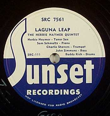 Laguna leap - Herbie Haymer Quintet 1946 fest. Charlie Shavers